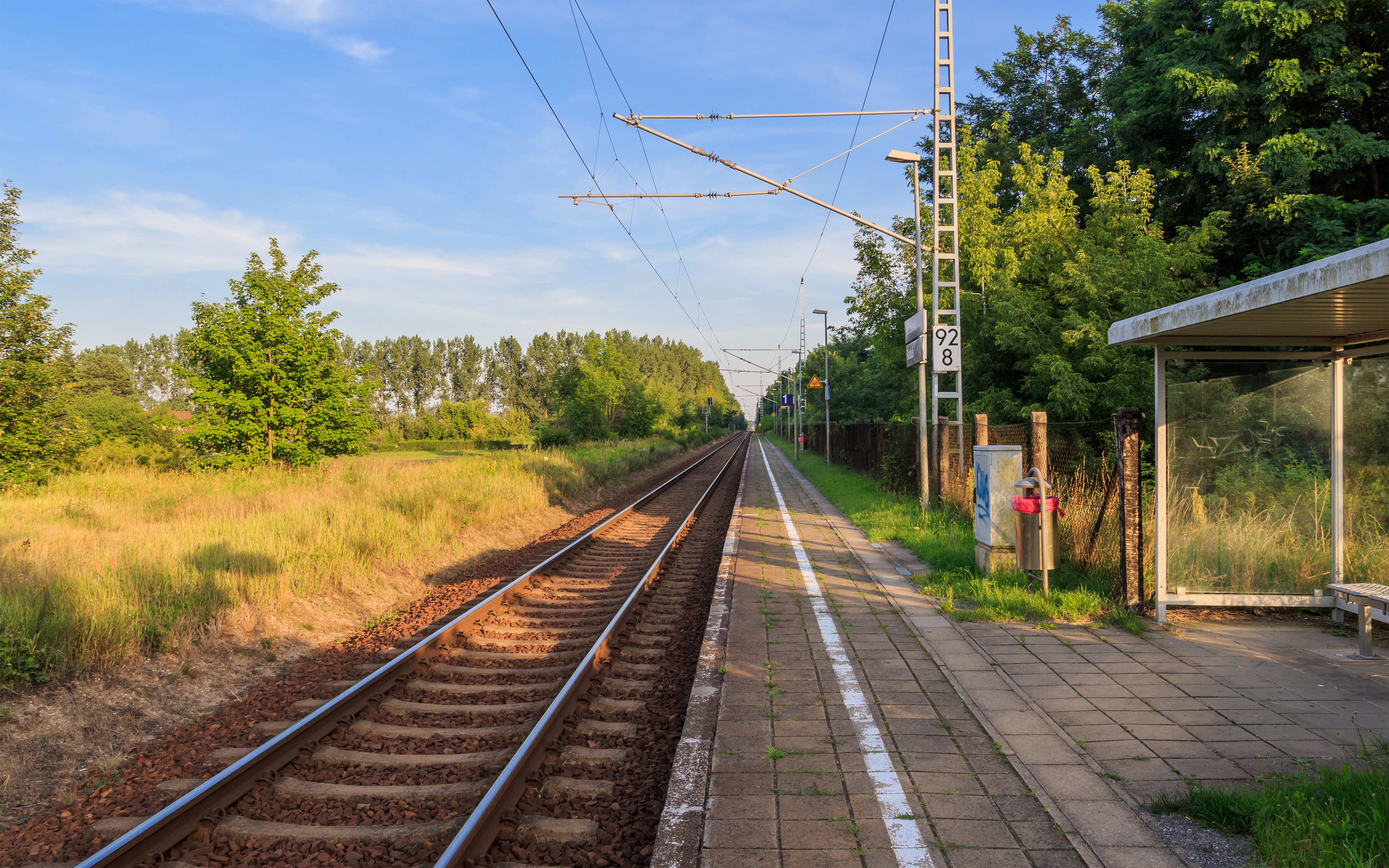 Train stop in Raddusch (Brandenburg, Germany)